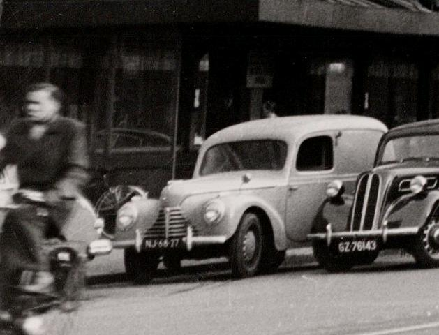 NJ-68-27 Skoda 1101 and Ford Anglia